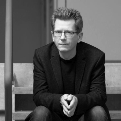 Prof. Dr. Albrecht Koschorke